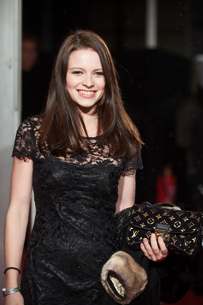 German actress Jennifer Ulrich at the BMW Festival Night 2010.